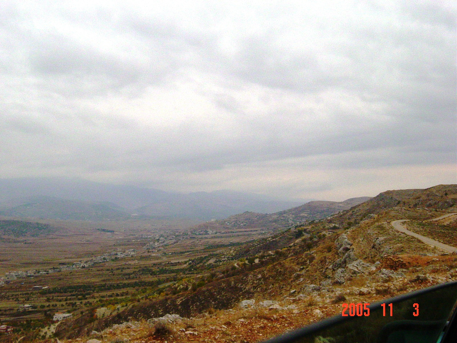 Depicted place: Al-Bireh